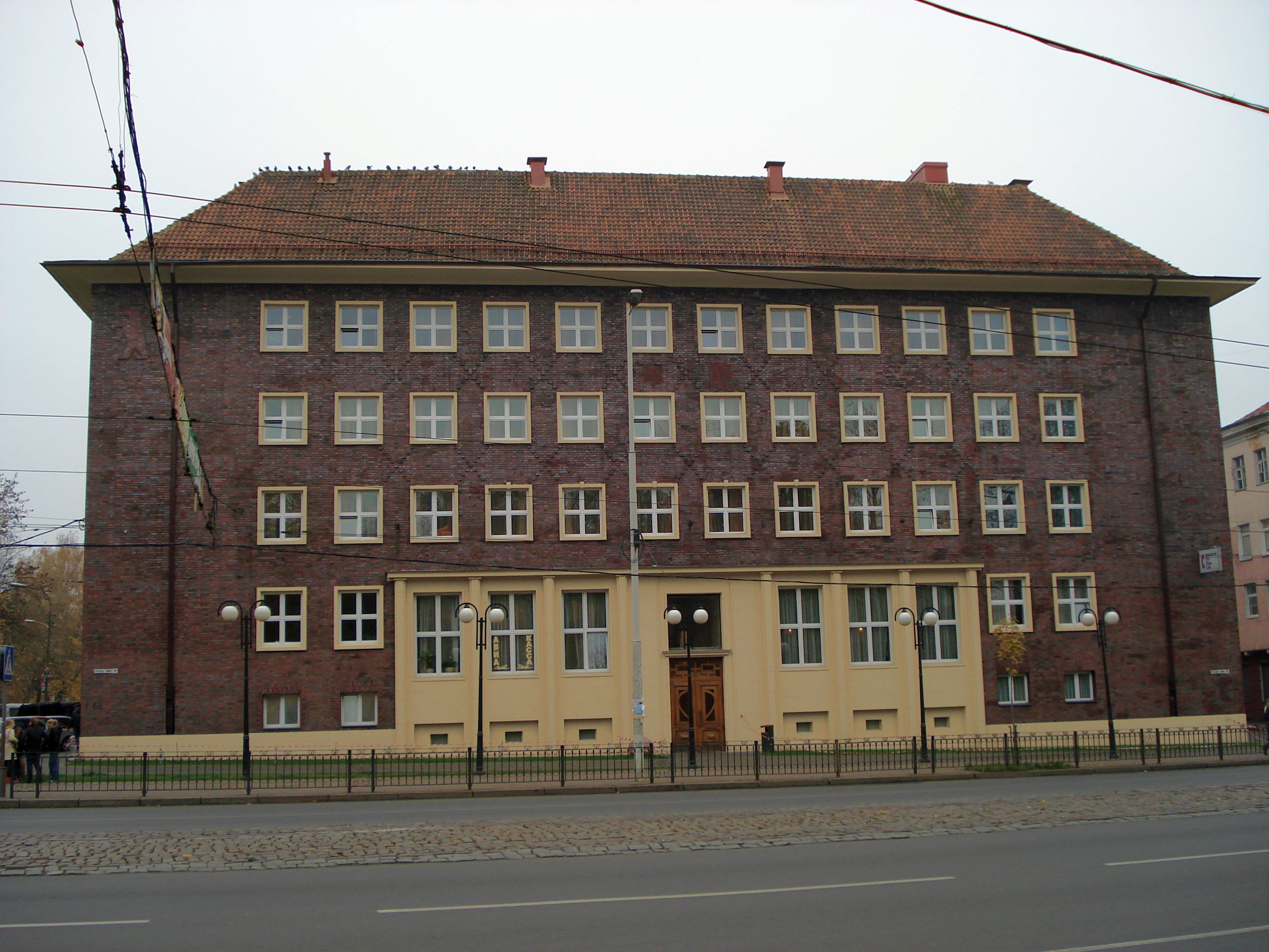 Hotel Moscow in Kaliningrad